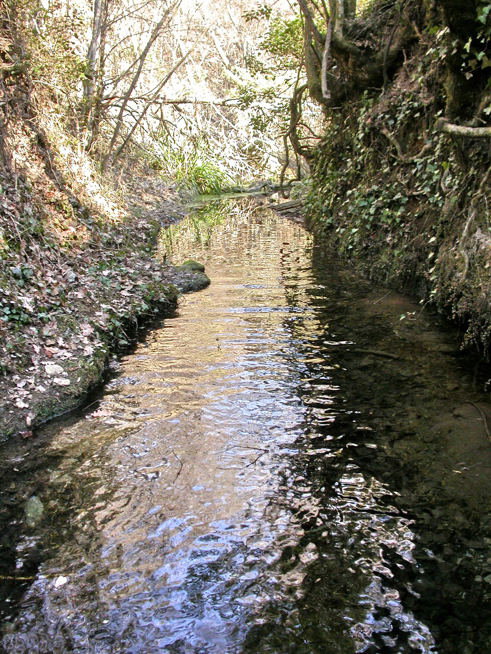 Serminier river in Fondurane Montauroux.